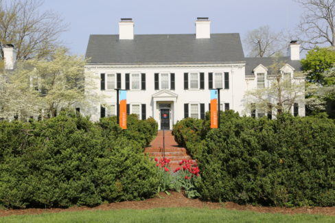 A photo of the front view of the museum.